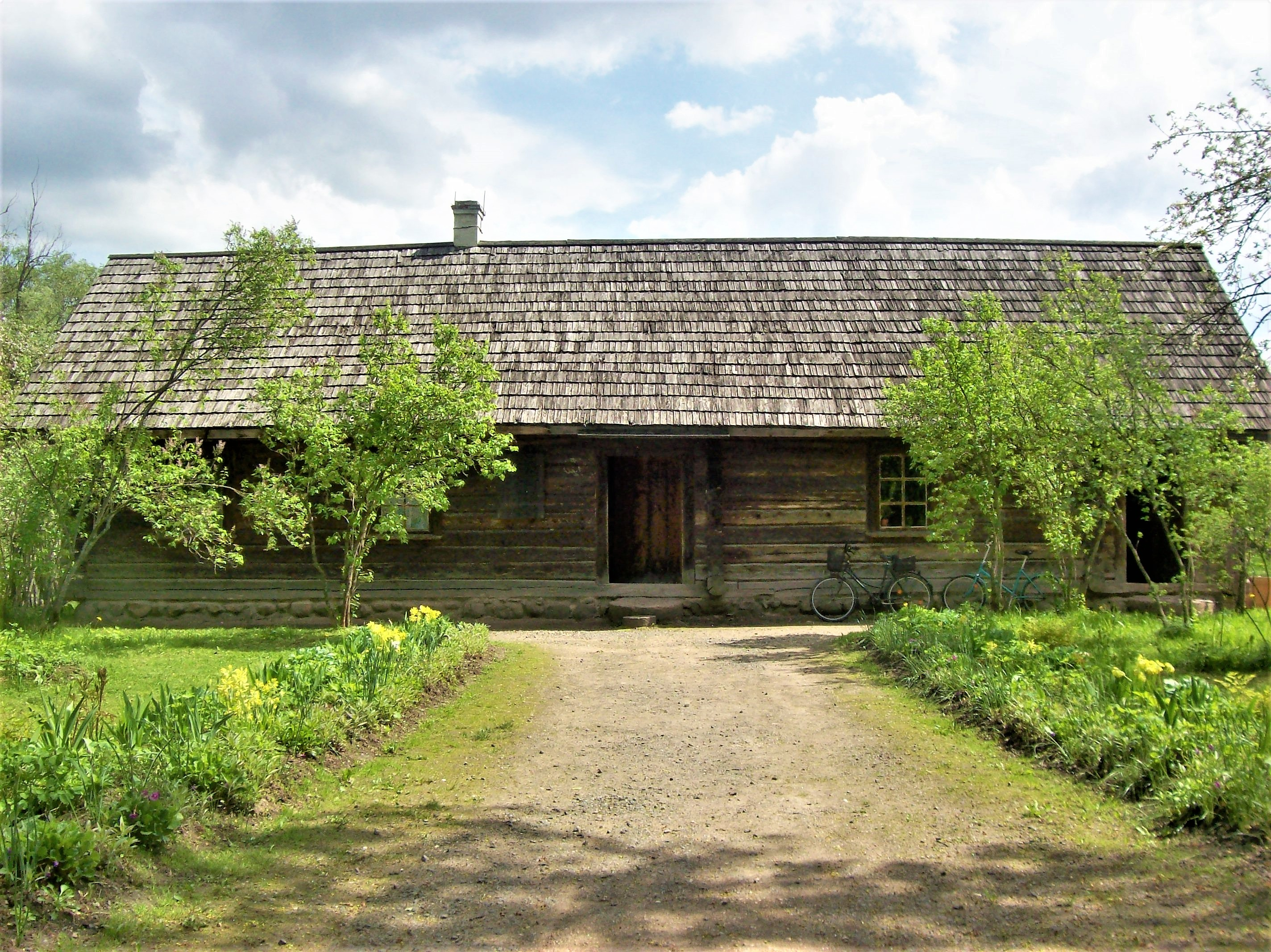 Photo of the house where was born one of the greatest Belarusian-language writers of the 20th century Yanka Kupala (Viazynka, near Minsk) Беларуская (тарашкевіца): Фатаздымак хаты, дзе нарадзіўся Янка Купала — адзін з найбуйнешых беларускамоўных паэтаў XX стагодзьдзя This is a photo of Belarusian heritage monument. Reference number: 613Б000299 ( WLM)